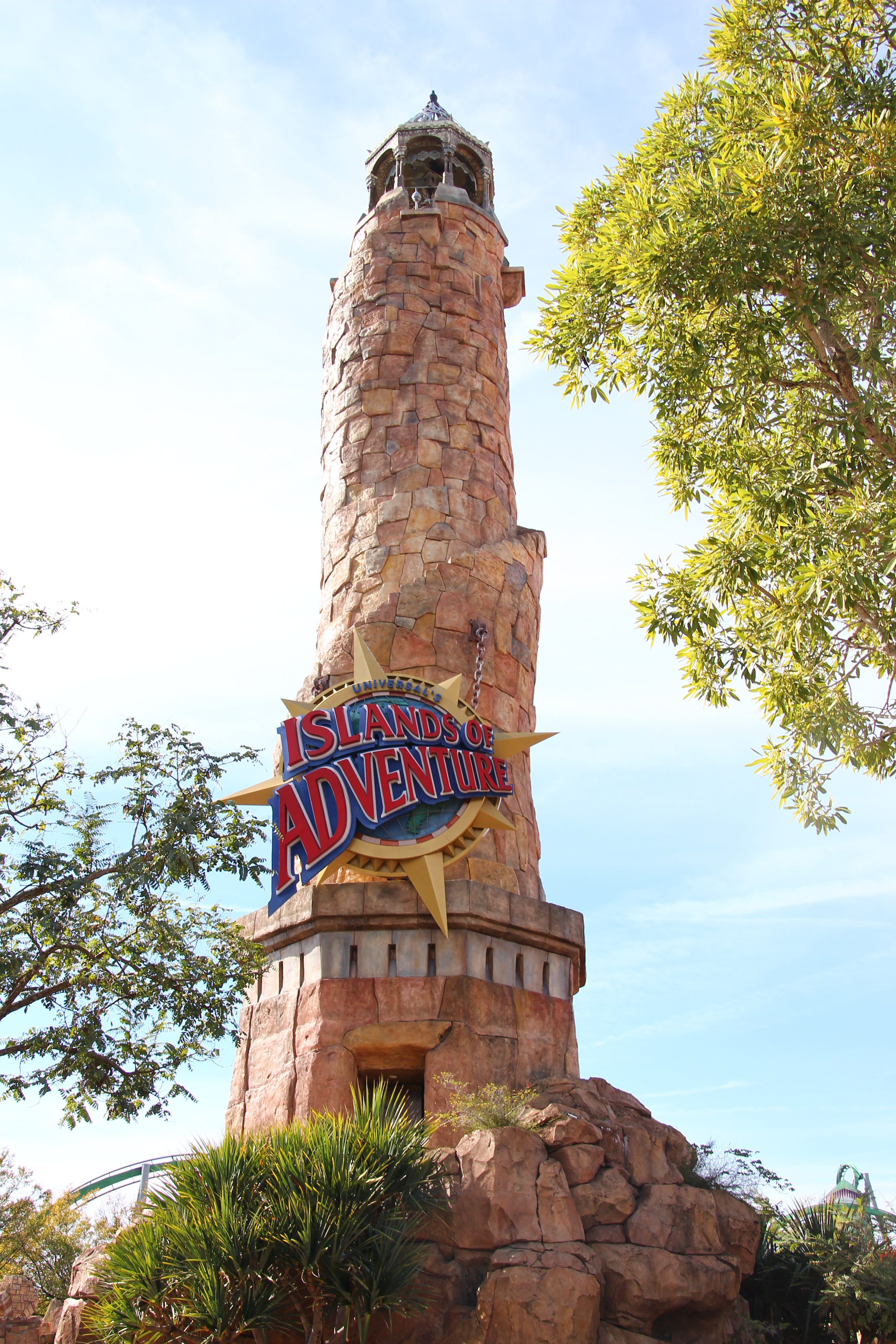 Ancient lighthouse at the entrance of the Islands of Adventure amusement theme park at Universal Orlando in Orlando, Florida.